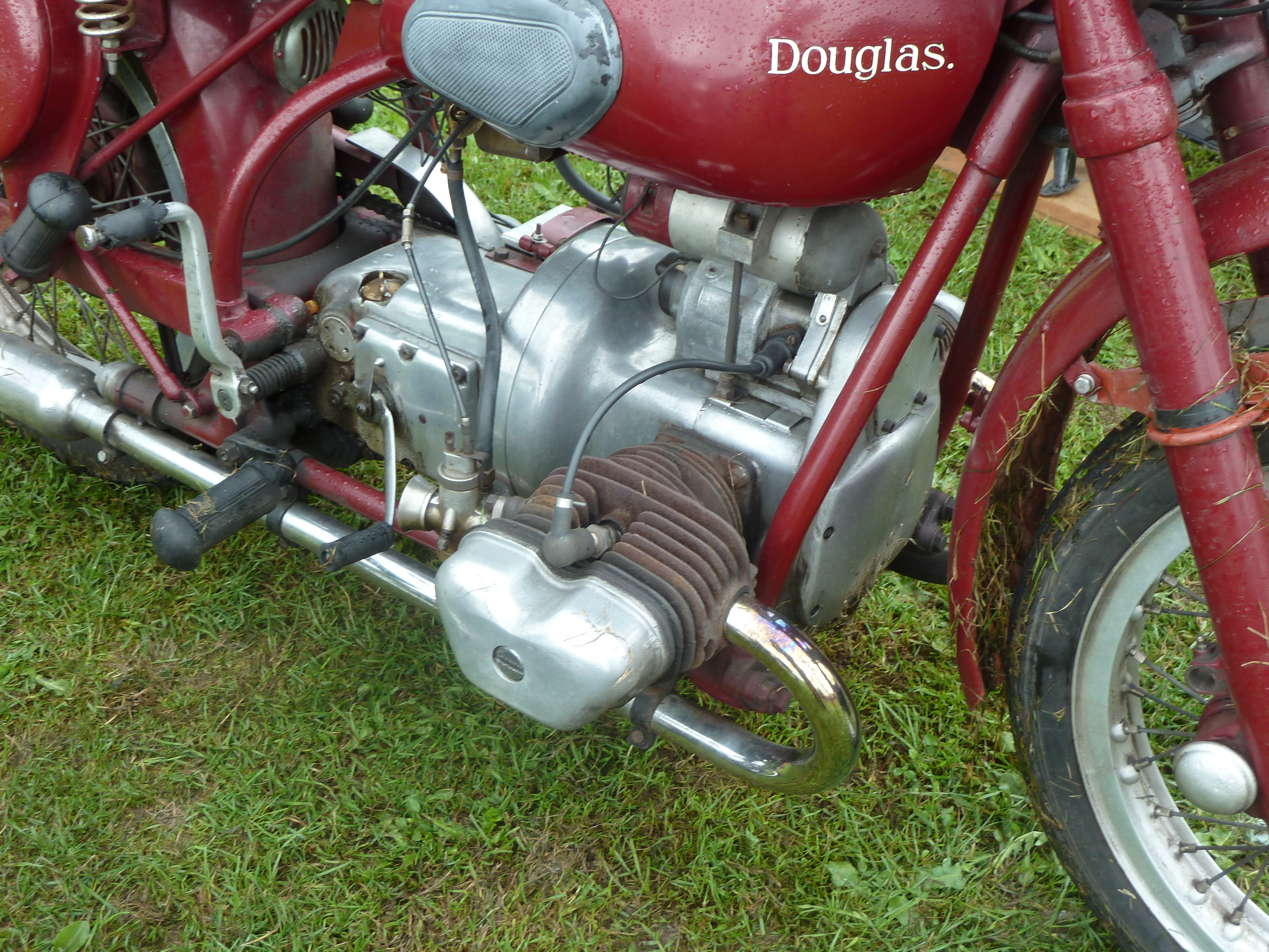 Douglas motorcycle Abergavenny steam rally, 2012.